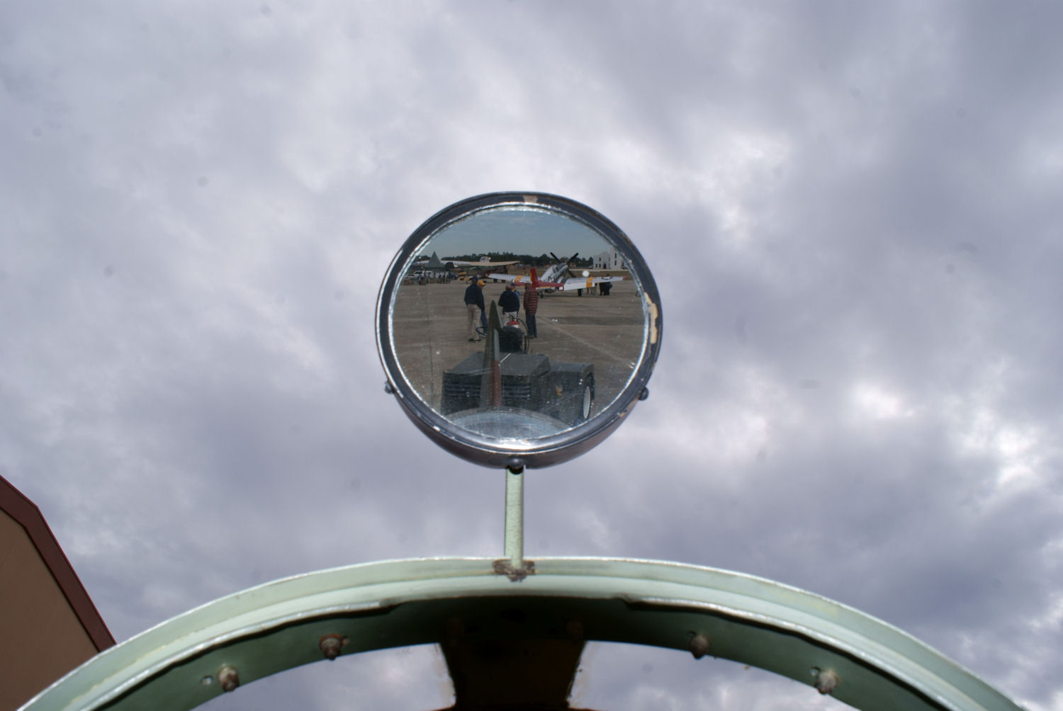 Supermarine_Spitfire_Mk.XVI_Cockpit_Rearview_Mirror_FOF_19Feb2010